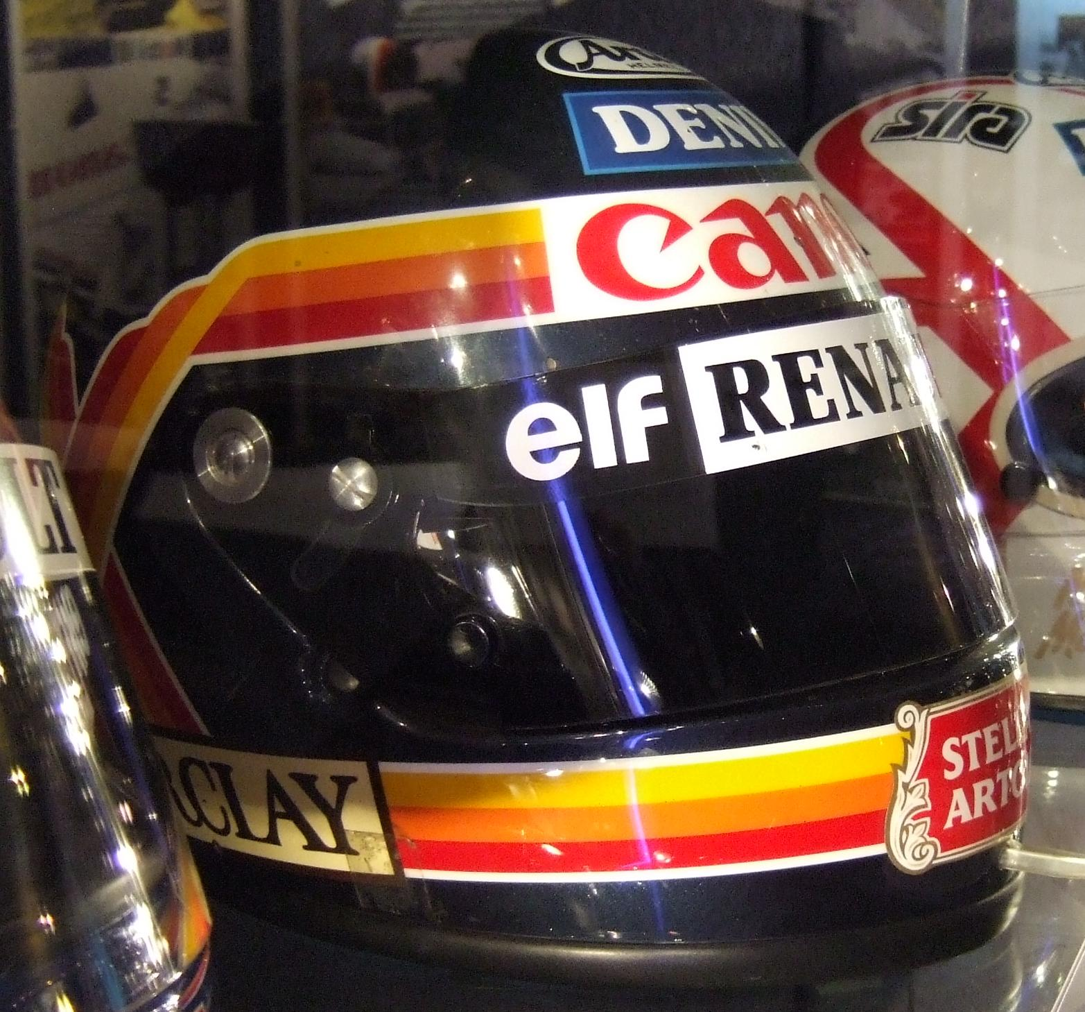 Thierry Boutsen's helmet as a Williams driver.